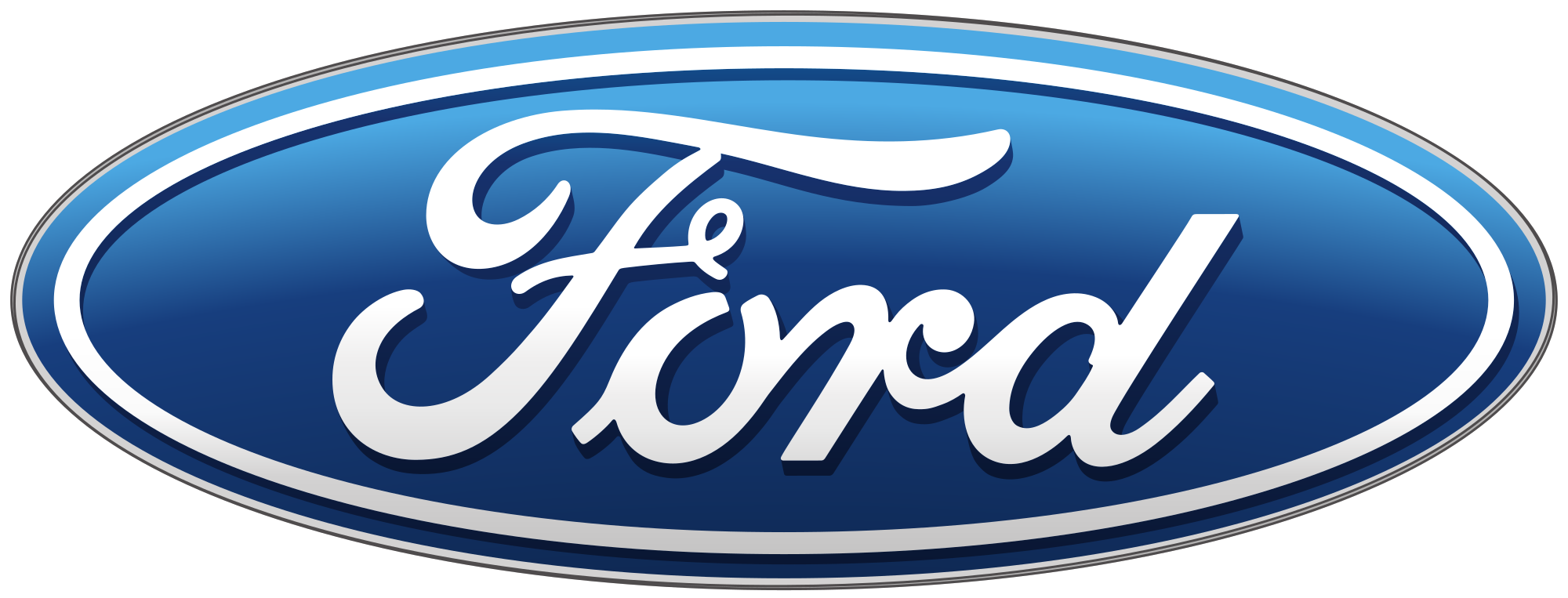 Ford Motor Company Logo